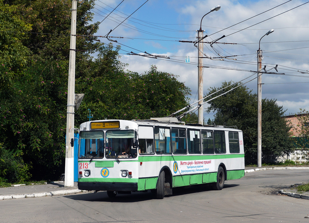 ЗиУ-9В №213